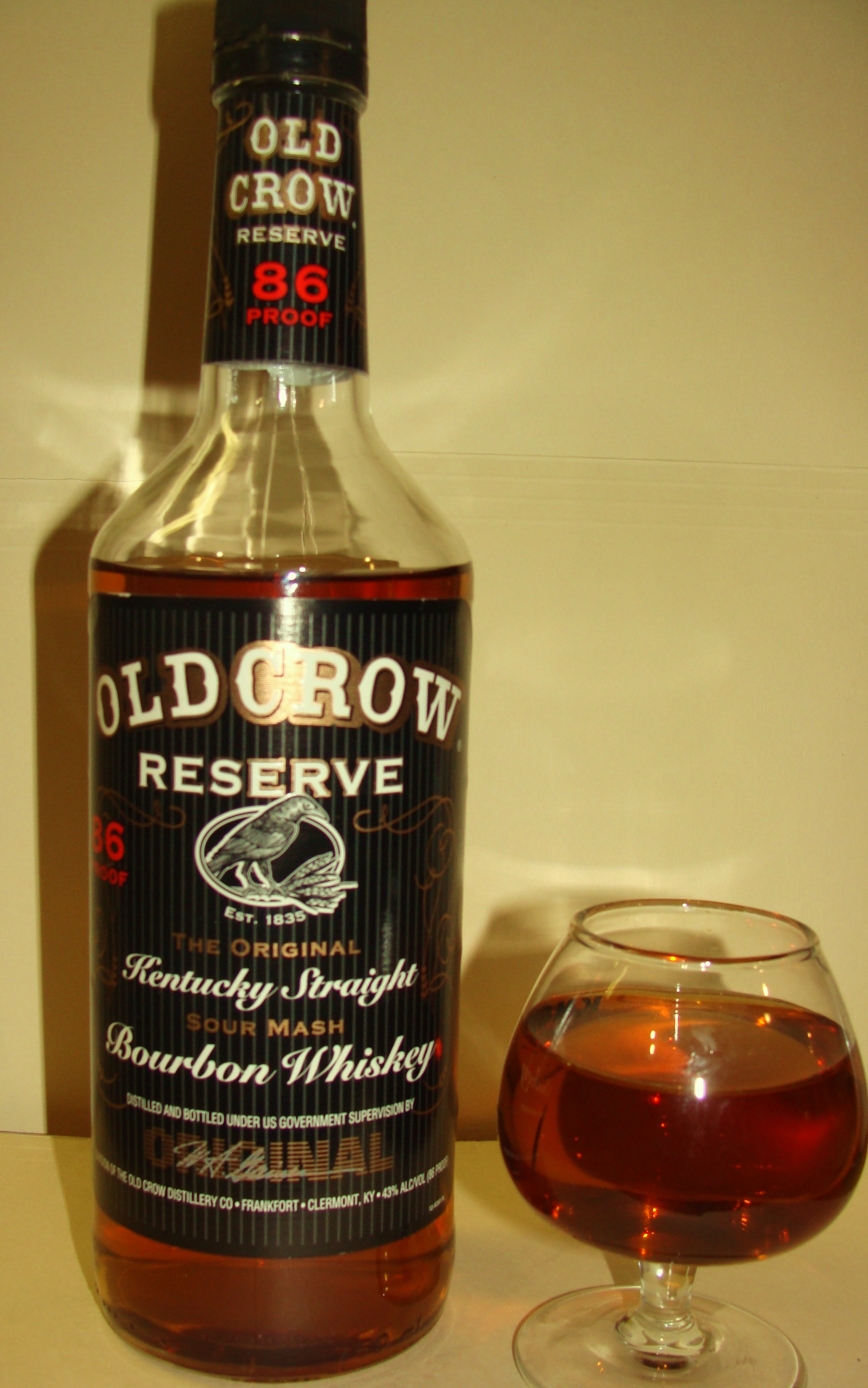 Old Crow